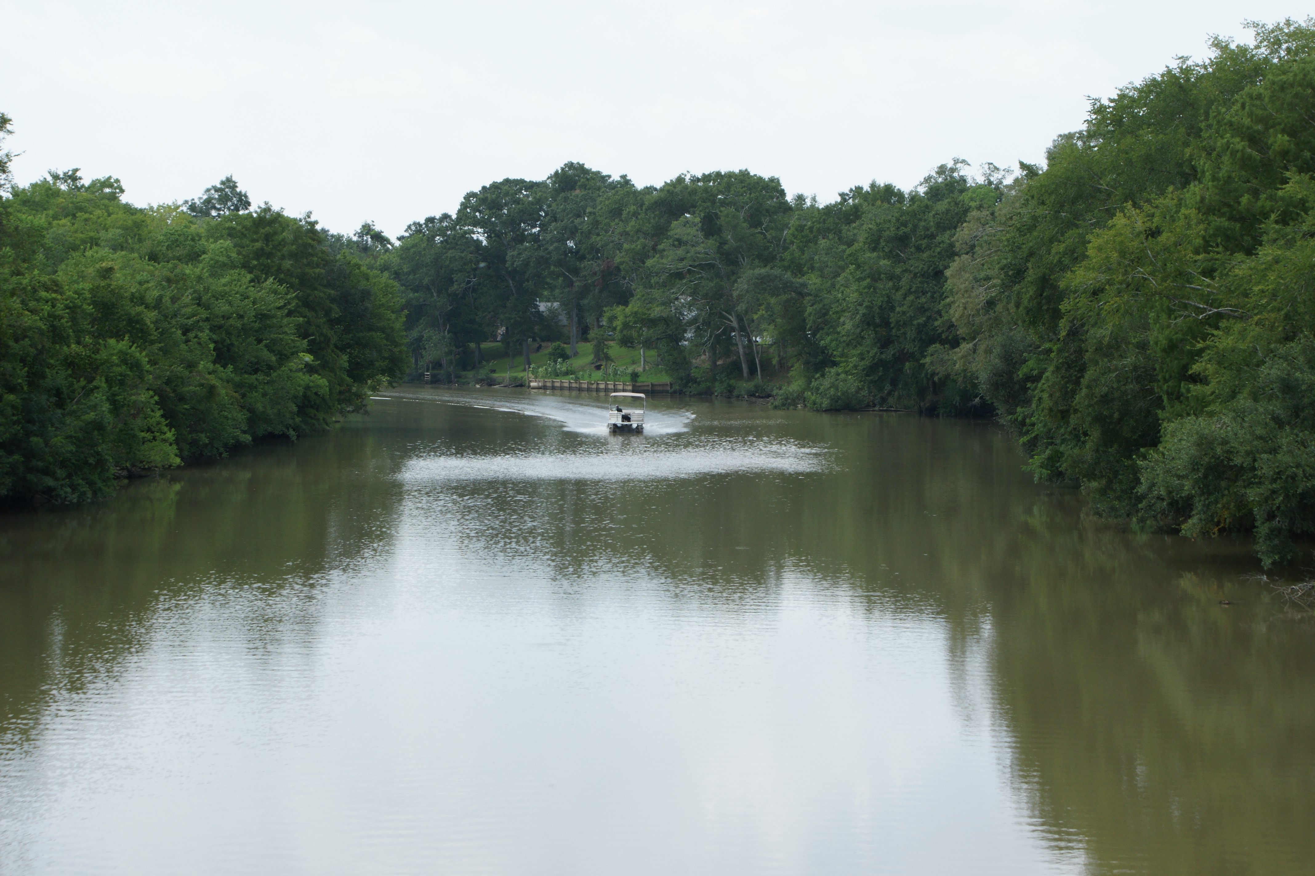 The Vermilion River viewed from the Milton bridge in , USA in August 2008. I took the picture and release to public domain.